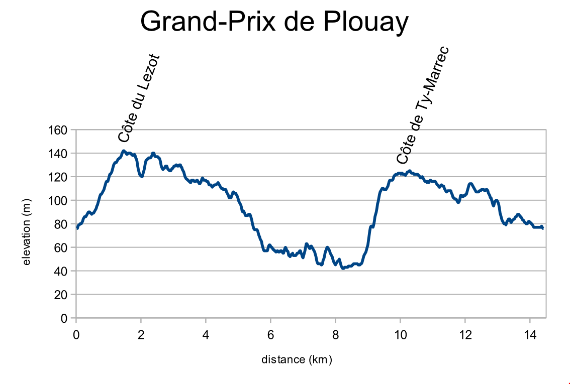 Profile of the circuit 2002 of the GP Plouay